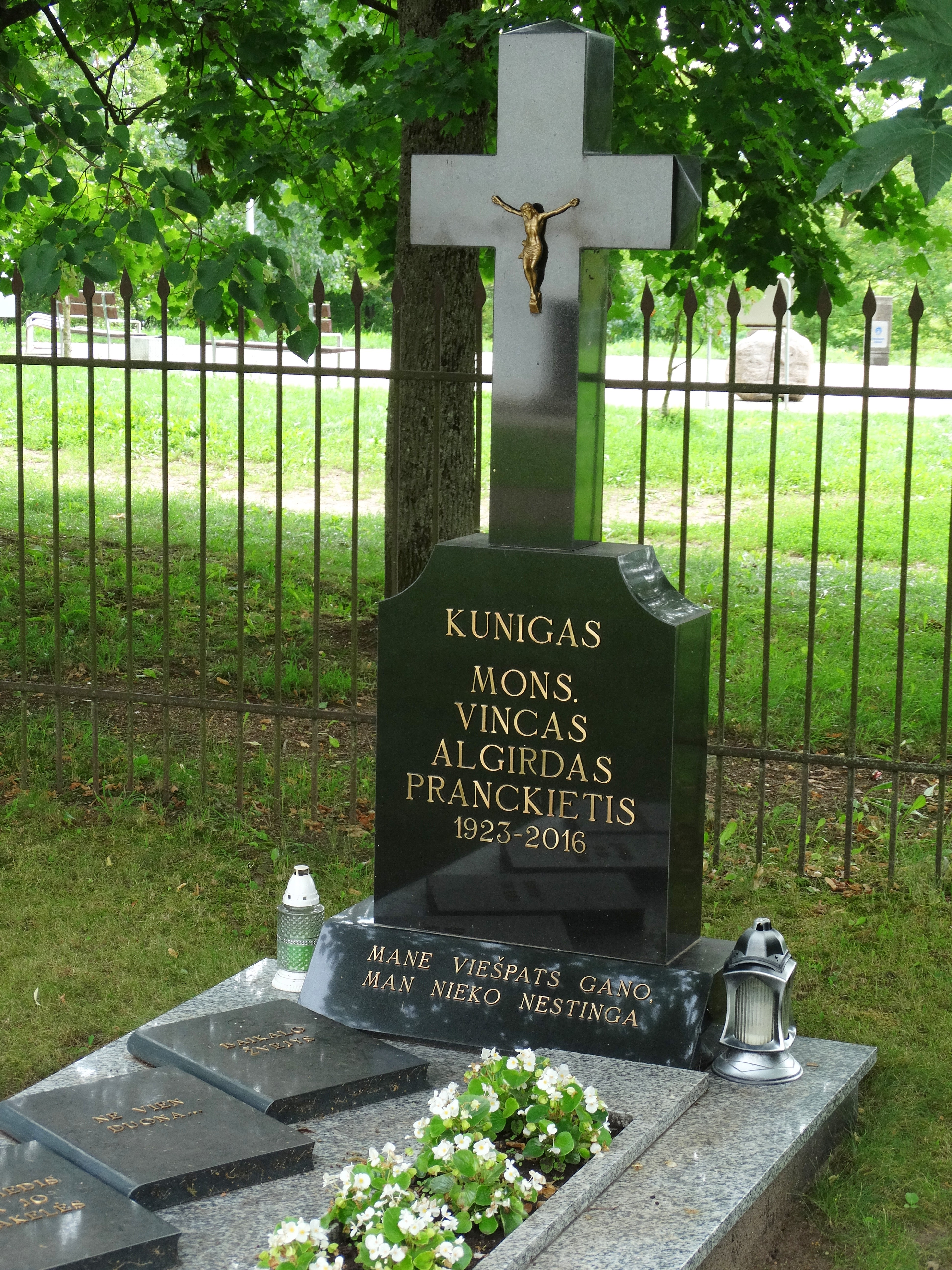 Tomb of Vincas Pranckietis, Jonava, Lithuania